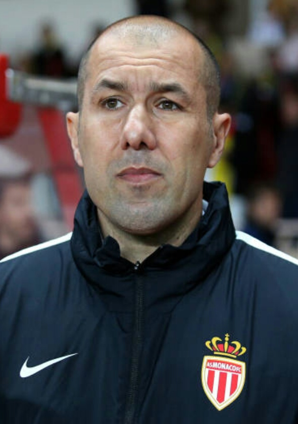 Leonardo Jardim sous les couleurs de l'AS Monaco en 2017 lors d'un match de ligue des champions contre le Borussia Dortmund au stade Louis II